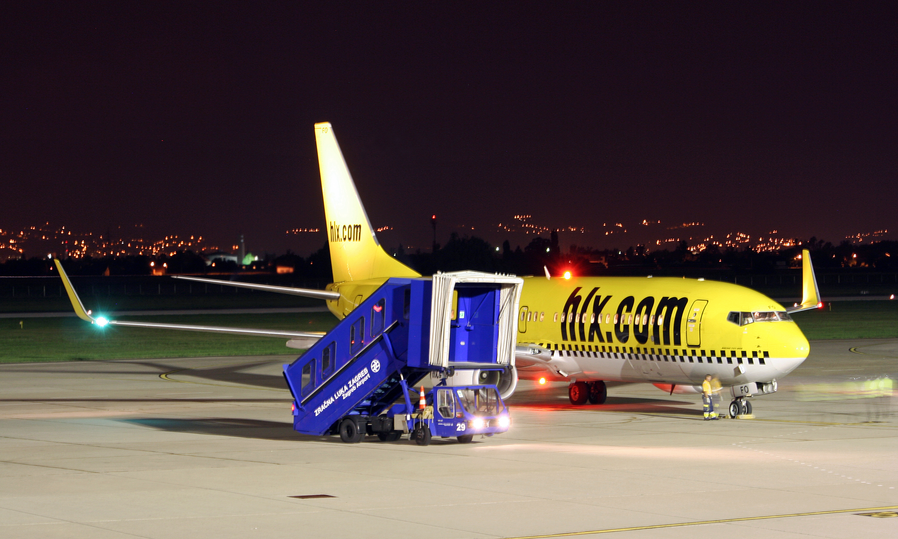 Start engine on B737